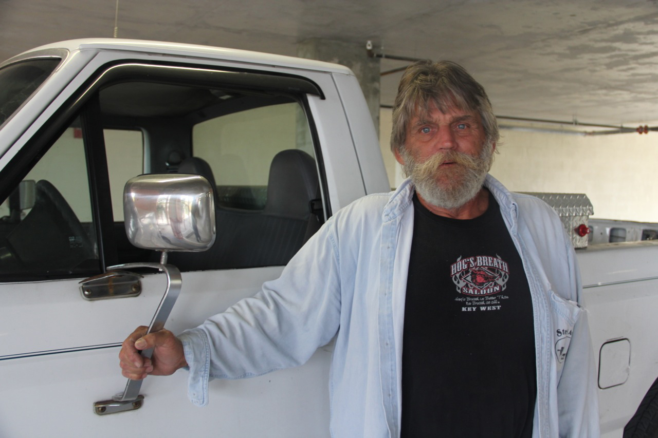 Formerly homeless Vietnam veteran in Miami, Florida with truck where he lived for 18 months.